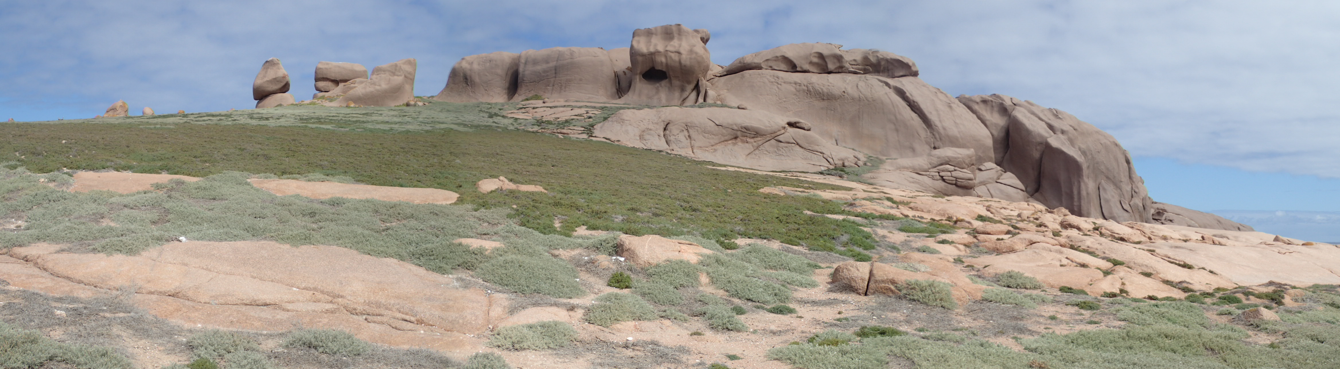 Rock formations, smooth hollows at the Southern end of Pearson Island